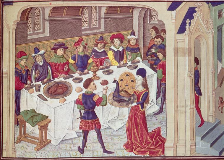 A roasted peacock dressed with its feathers is served at a banquet, miniature of a manuscript of The Romance of Alexander the Great ("The Vows of the Peacock")